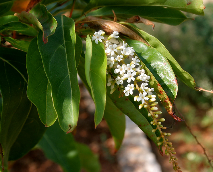 Citharexylum spinosum (Syn. Citharexylum fruticosum L.; Citharexylum quadrangulare, Citharexylum fruticosum L. forma subserratum (Sw.) Moldenke, Citharexylum subserratum Sw.)- Fiddlewood, Fiddlewood Tree, Spiny Fiddlewood - in Herbal Garden, in Rangareddy district of Andhra Pradesh, India.